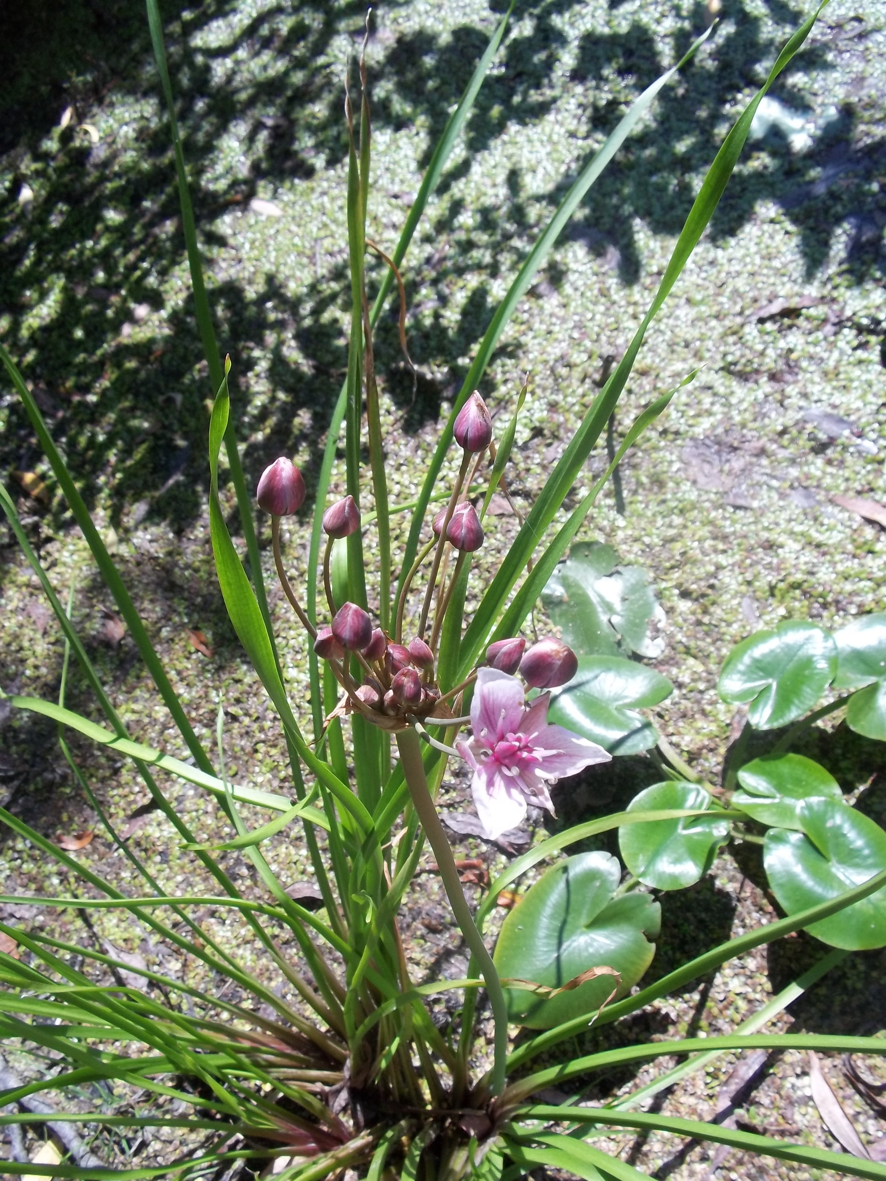 Butomus umbellatus in nature reserve Koutské a Zábřežské louky in Opava District, Czech Republic